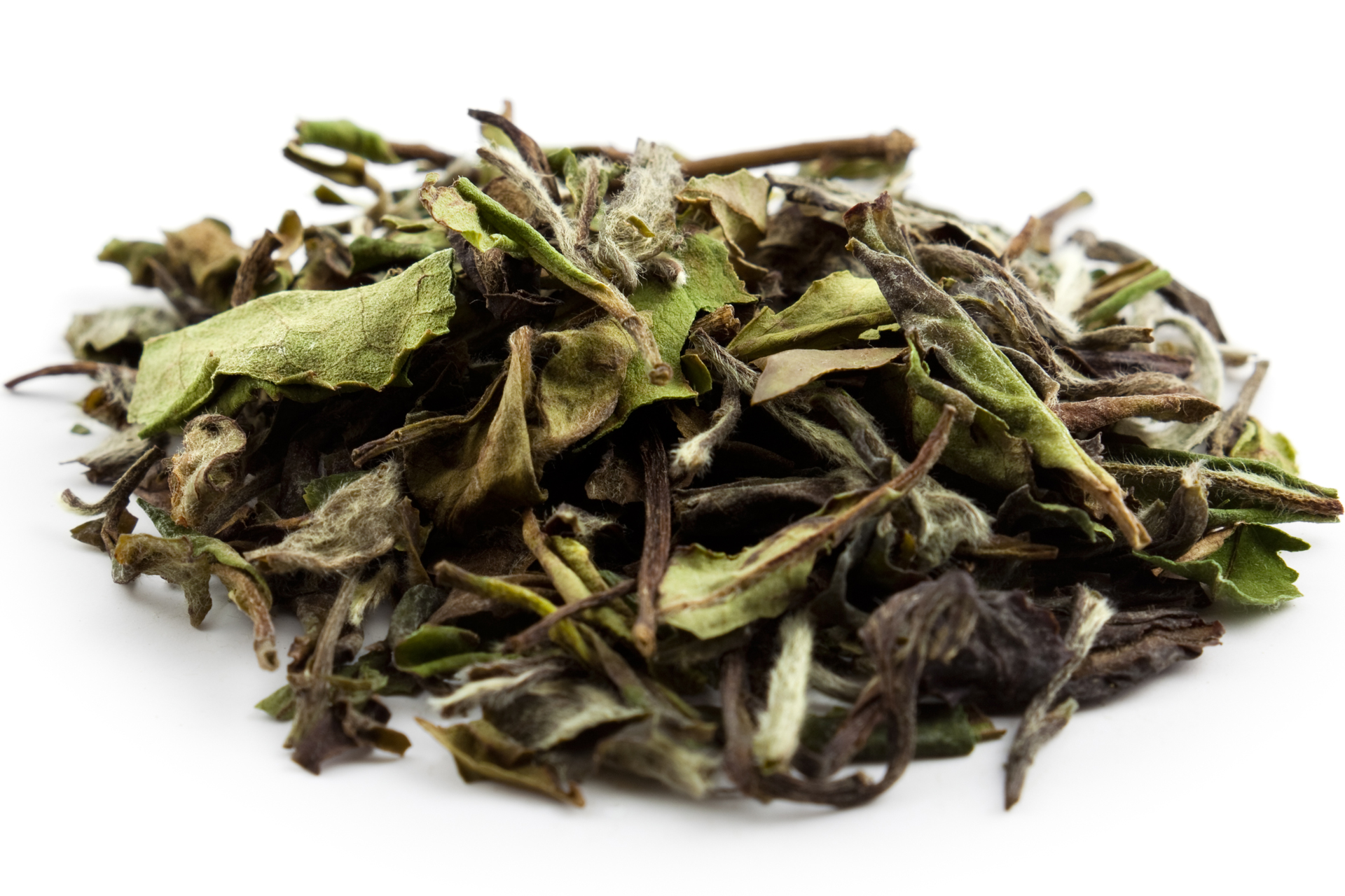 White tea leafs